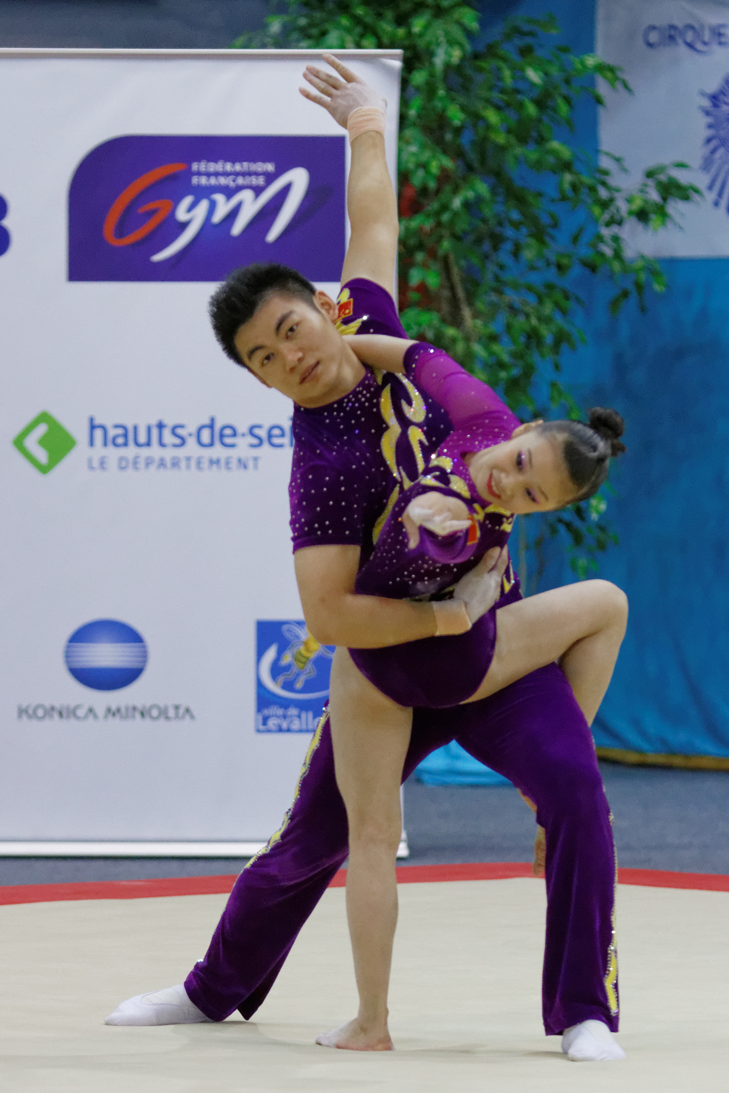 2014 Acrobatic Gymnastics World Championships, 10th-12 July, Levallois-Perret, France. Qualifications: mixed pair. China.